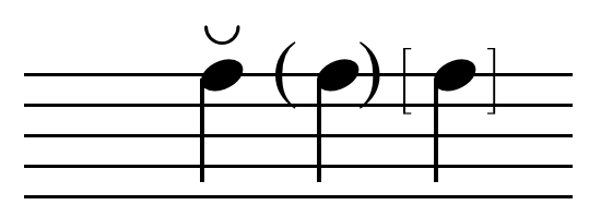 Anti-accents.